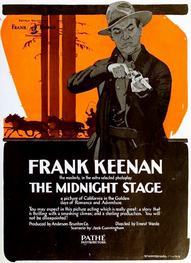 Ad for the American western film The Midnight Stage (1919) with Frank Keenan, on page 159 of the January 11, 1919 Moving Picture World.